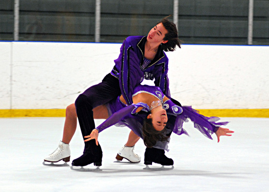 I took this photo of the Reeds in Simsbury 10/25/06 Nikon D70 80-200mm f2.8, 800 ISO Michael Kass